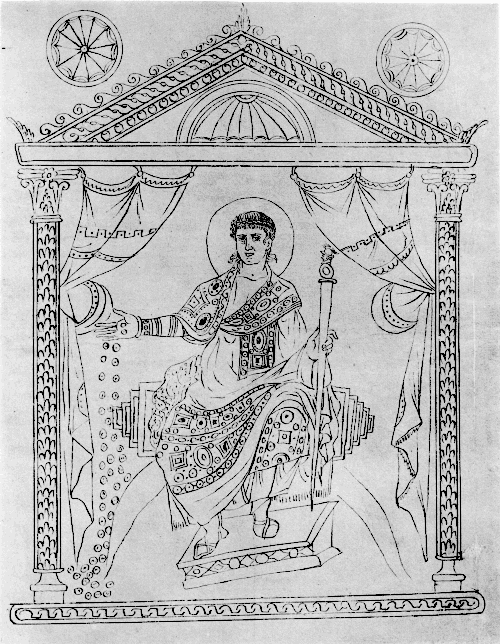 Portrait of Constantius II from the Chronography of 354, the Barberini MS in the Vatican Library